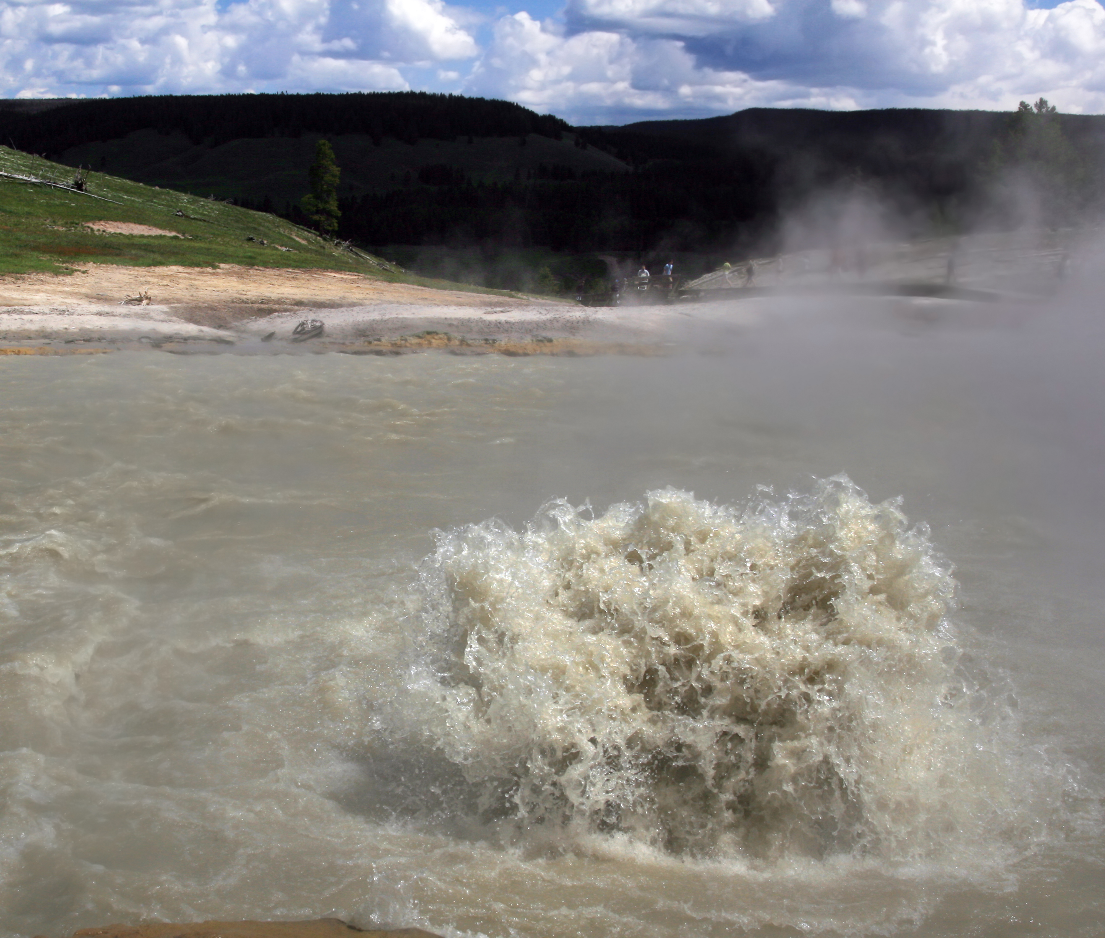 Boiling lake in Yellowstone National Park.Once Churning Caldron was a cool spring covered with colorful mats of microorganisms. This all has changed after earthquakes in 1978-79 superheated the water and killed the microbes. This once cool pool now averages 164°F and in 1996, it began throwing water 3-5 feet.